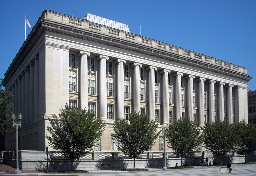 The Treasury Annex, located across the street from the U.S. Department of the Treasury headquarters, at 701 Madison Place NW (on the corner of Pennsylvania Avenue and Madison Place NW.), in downtown Washington, D.C. The Treasury Annex houses the Office of Foreign Assets Control and the headquarters and main branch of the Treasury Department Federal Credit Union. Designed by noted architect Cass Gilbert, construction of the Beaux-Arts Treasury Annex was completed in 1919. The building is designated a contributing property to the Lafayette Square Historic District, listed on the National Register of Historic Places in 1970. The Treasury Annex is also designated a D.C. Historic Landmark, listed on the District of Columbia Inventory of Historic Sites in 1964. A plaque marking the former headquarters of the Freedman's Savings and Trust Company (more commonly known as the Freedman's Bank, pictured here) is located on the west face of the Treasury Annex.